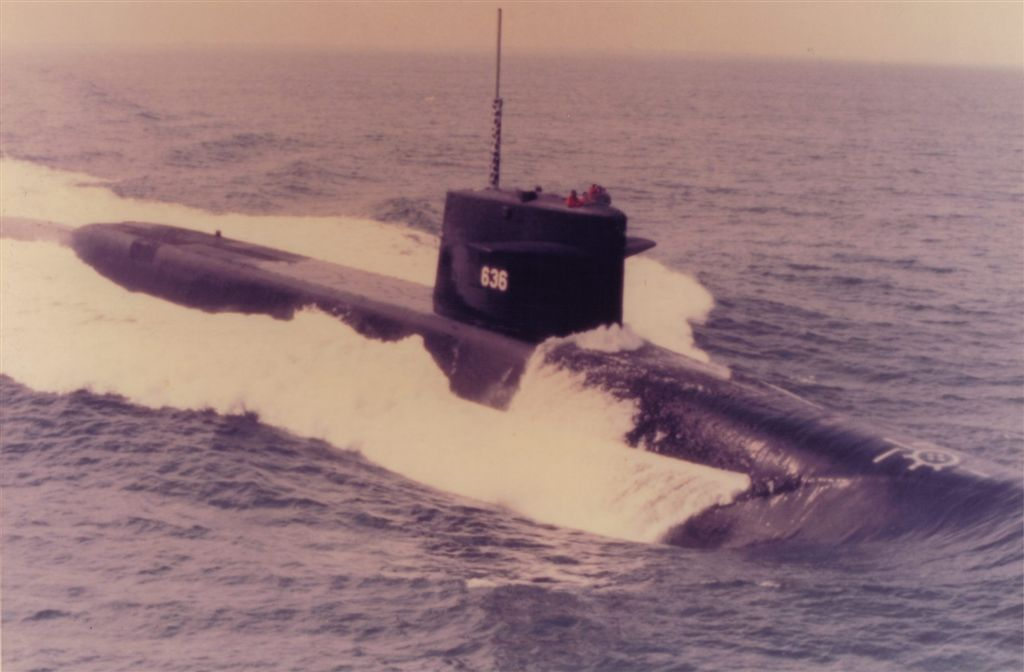 United States Navy fleet ballistic missile submarine probably off New England while on sea trials